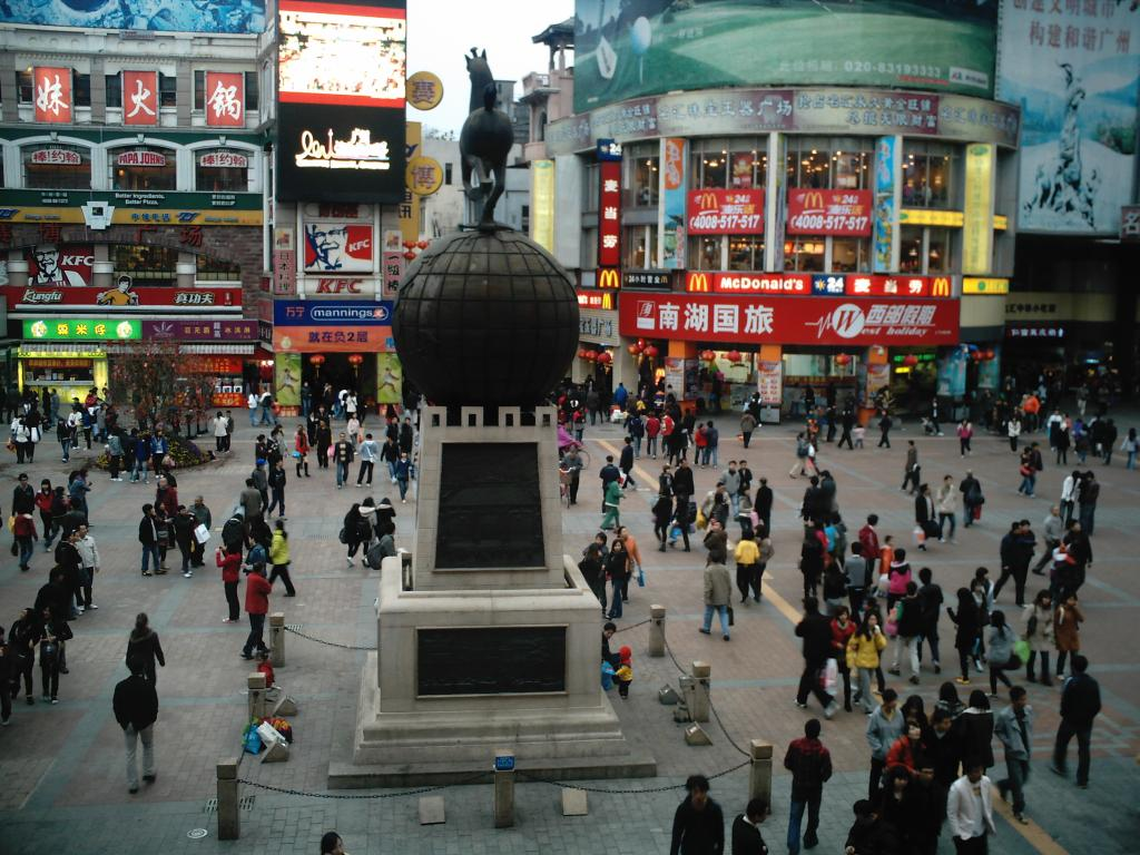 Sheung Ha Kau Square, Canton, Kwangtung 粵語: 廣州上下九廣場